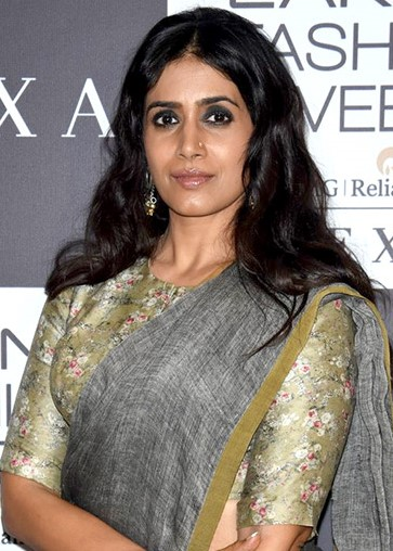 Sonali Kulkarni on Day 2 of Lakme Fashion Week 2017.